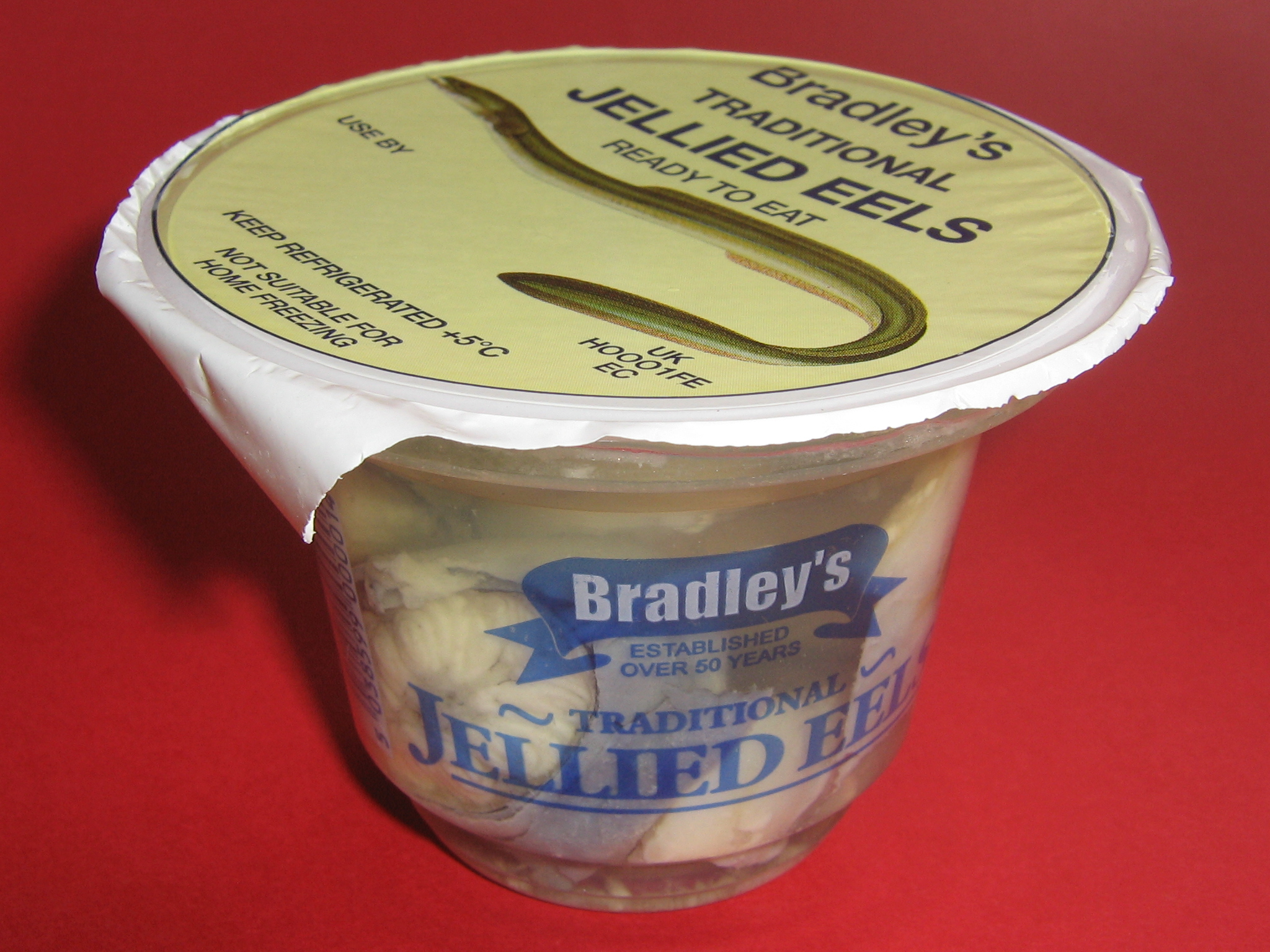 This photo of a container of jellied eels, bought at a Morrisons supermarket in Reading, Berks, taken by me, JanesDaddy, and realised under a free license. --JanesDaddy 18:12, 24 June 2006 (UTC)